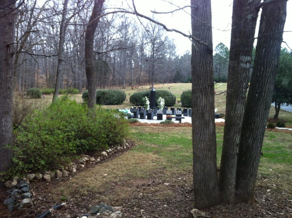 Flight 5481 Memorial - Forest Lawn East Cemetery, Matthews, NC